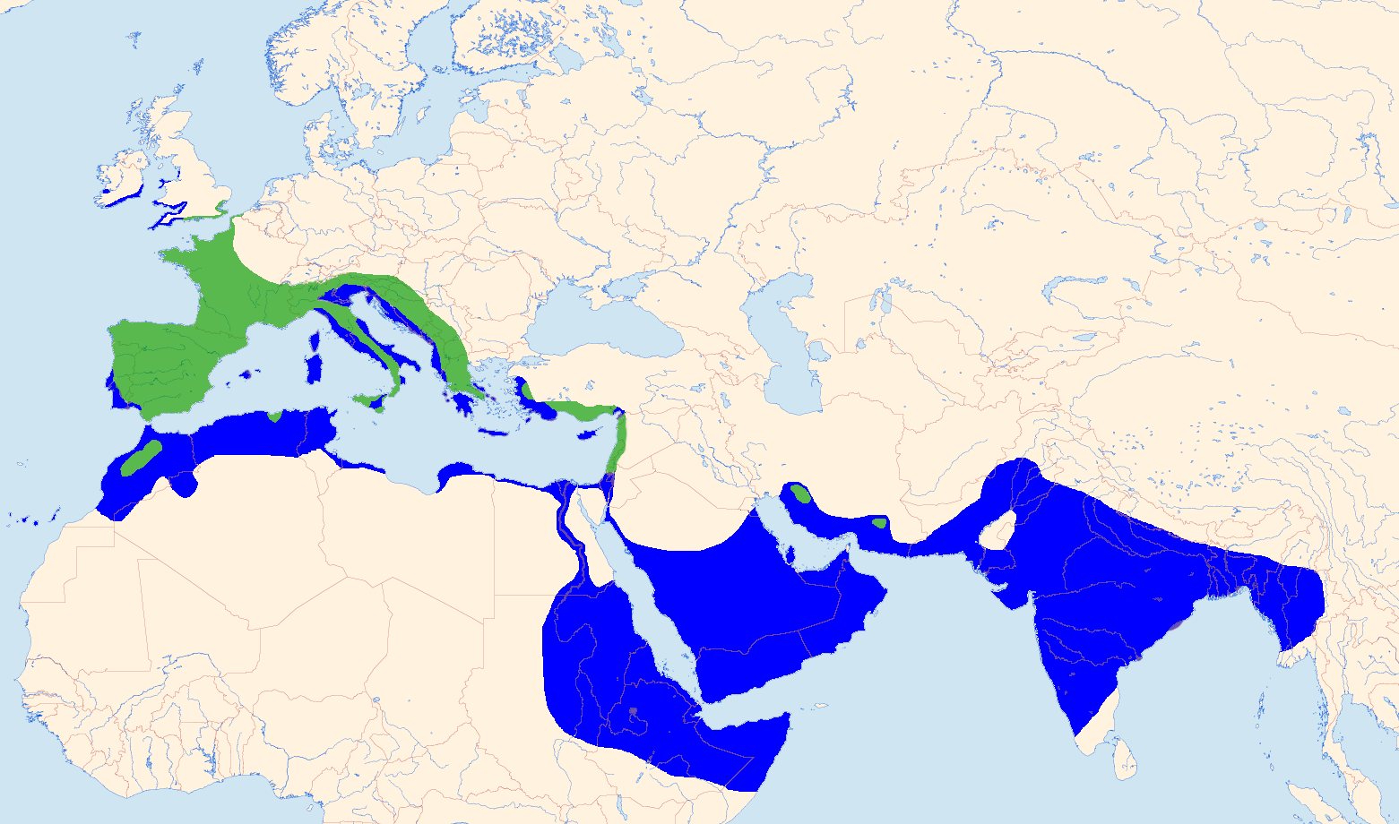 Winter range of Black Redstart Phoenicurus ochruros. Green: all year; Blue: winter only.